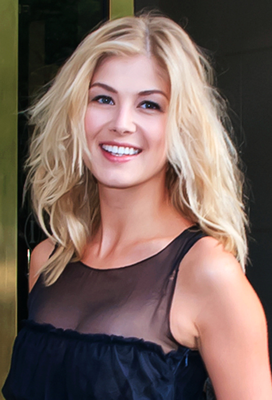 Rosamund Pike at the 2010 Toronto International Film Festival.